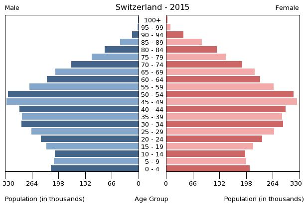 A population pyramid illustrates the age and sex structure of population and may provide insights about political and social stability, as well as economic development. The population is distributed along the horizontal axis, with males shown on the left and females on the right. The male and female populations are broken down into 5-year age groups represented as horizontal bars along the vertical axis, with the youngest age groups at the bottom and the oldest at the top. The shape of the population pyramid gradually evolves over time based on fertility, mortality, and international migration trends.